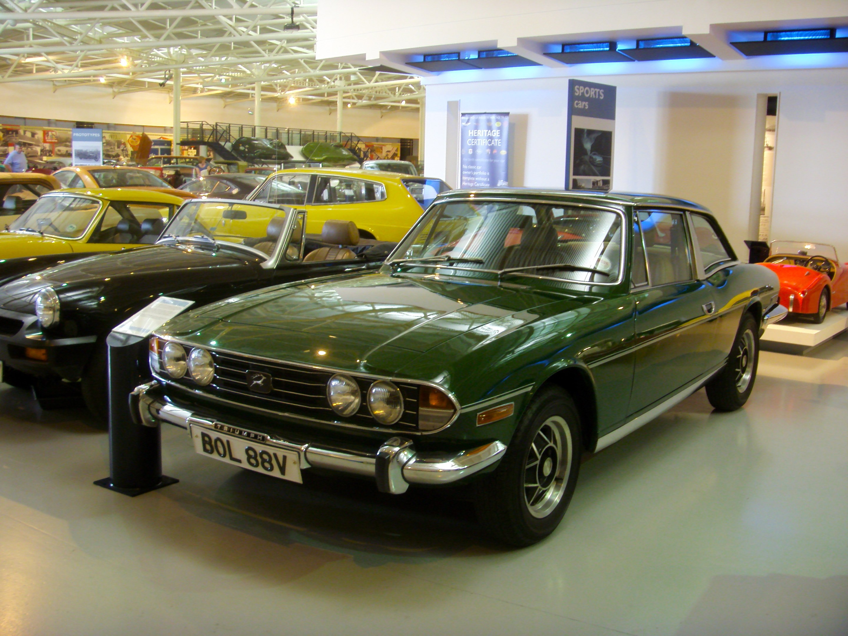 The last Stag off the line.